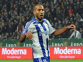 Haitam Aleesami, IFK Göteborg